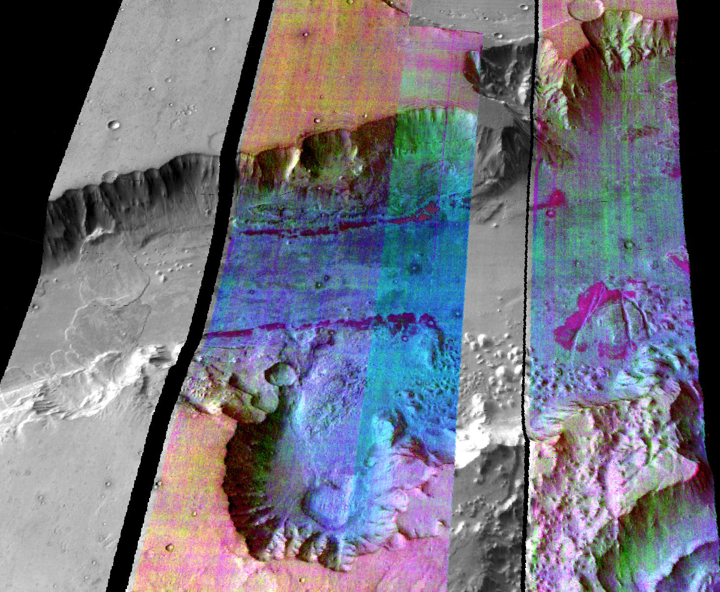 Olivine mineral in valles marineris, mars Original title: PIA04262: Ganges Chasma Original Caption Released with Image: This false-color infrared image was taken by the camera system on the Mars Odyssey spacecraft over part of Ganges Chasma in Valles Marineris (approximately 13 degrees S, 318 degrees E). The infrared image has been draped over topography data obtained by Mars Global Surveyor. The color differences in this image show compositional variations in the rocks exposed in the wall and floor of Ganges (blue and purple) and in the dust and sand on the rim of the canyon (red and orange). The floor of Ganges is covered by rocks and sand composed of basaltic lava that are shown in blue. A layer that is rich in the mineral olivine can be seen as a band of purple in the walls on both sides of the canyon, and is exposed as an eroded layer surrounding a knob on the floor. Olivine is easily destroyed by liquid water, so its presence in these ancient rocks suggests that this region of Mars has been very dry for a very long time. The mosaic was constructed using infrared bands 5, 7, and 8, and covers an area approximately 150 kilometers (90 miles) on each side. This simulated view is toward the north. NASA's Jet Propulsion Laboratory manages the 2001 Mars Odyssey mission for NASA's Office of Space Science, Washington, D.C. The thermal emission imaging system was provided by Arizona State University, Tempe. Lockheed Martin Astronautics, Denver, Colo., is the prime contractor for the project, and developed and built the orbiter. Mission operations are conducted jointly from Lockheed Martin and from JPL, a division of the California Institute of Technology in Pasadena. Mission: 2001 Mars Odyssey Spacecraft: 2001 Mars Odyssey Instrument: Thermal Emission Imaging System